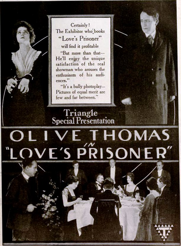 Ad for the American crime drama film Love's Prisoner (1919) with Olive Thomas and Joe King, on page 1287 of the May 31, 1919 Moving Picture World.